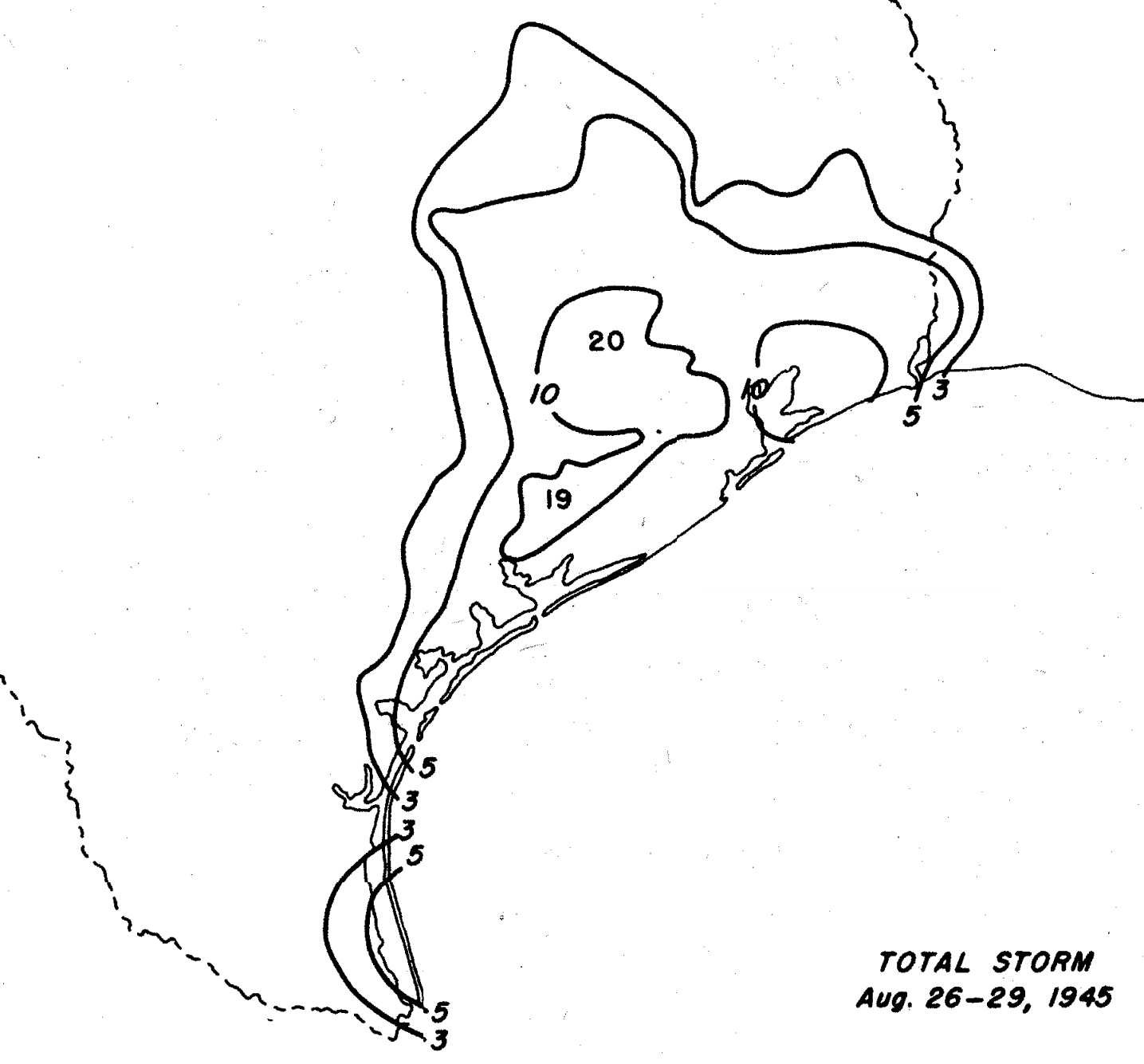 Rainfall totals from Hurricane Five of the 1945 Atlantic hurricane season.